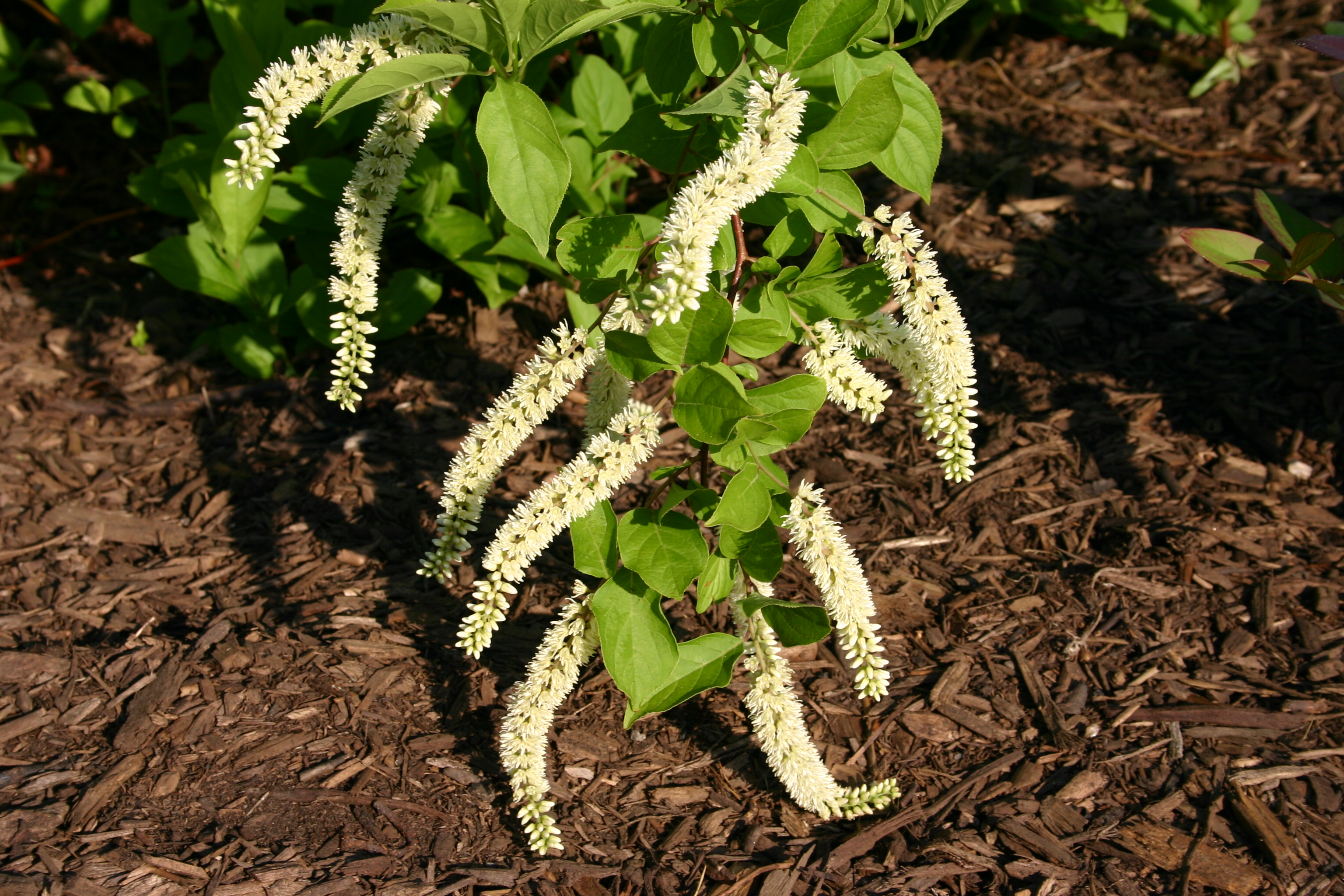 Flowering branch of Itea virginica